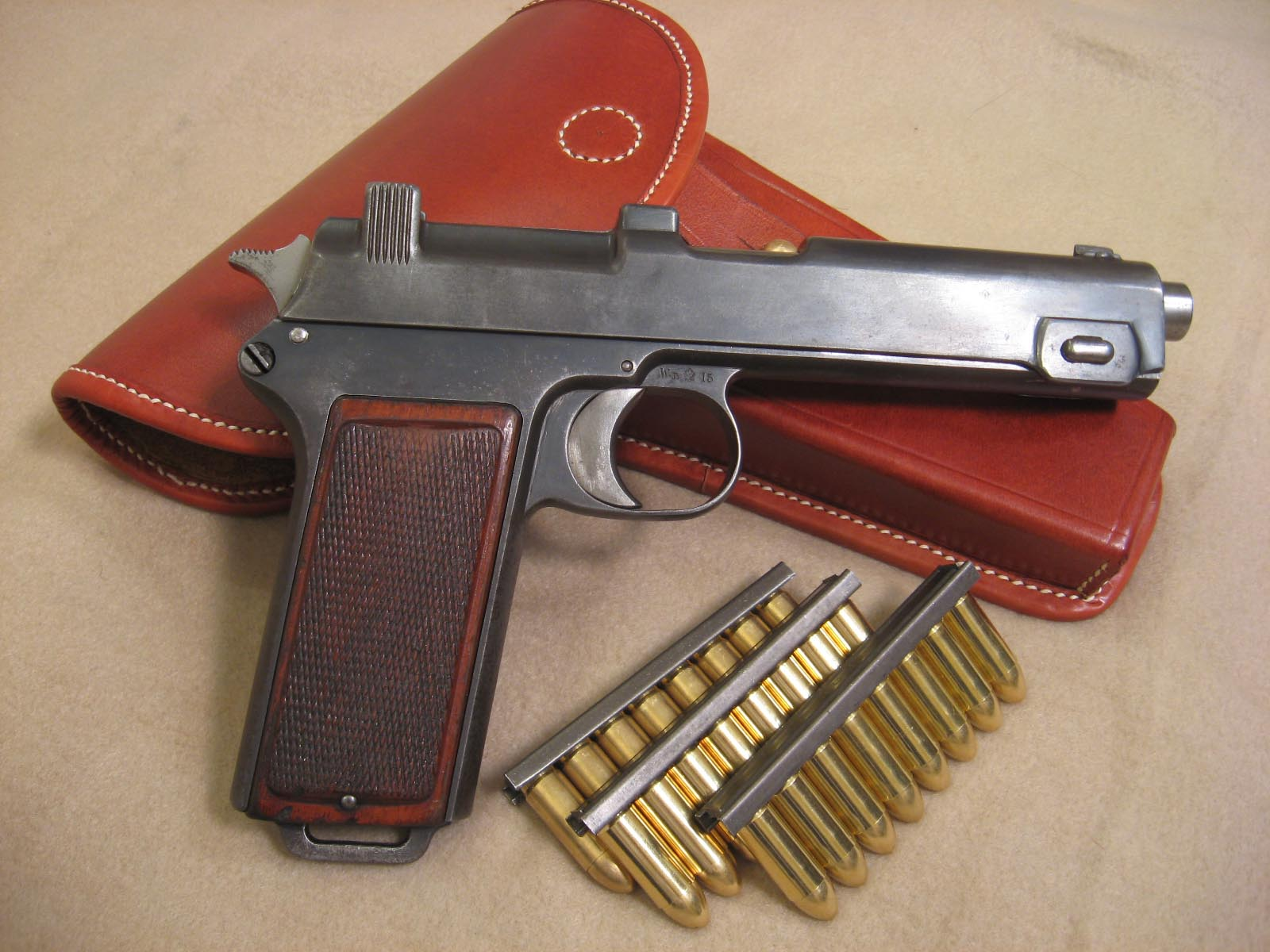 Steyr-Hahn M1912. Made in 1915, chambered in 9x23 Steyr.